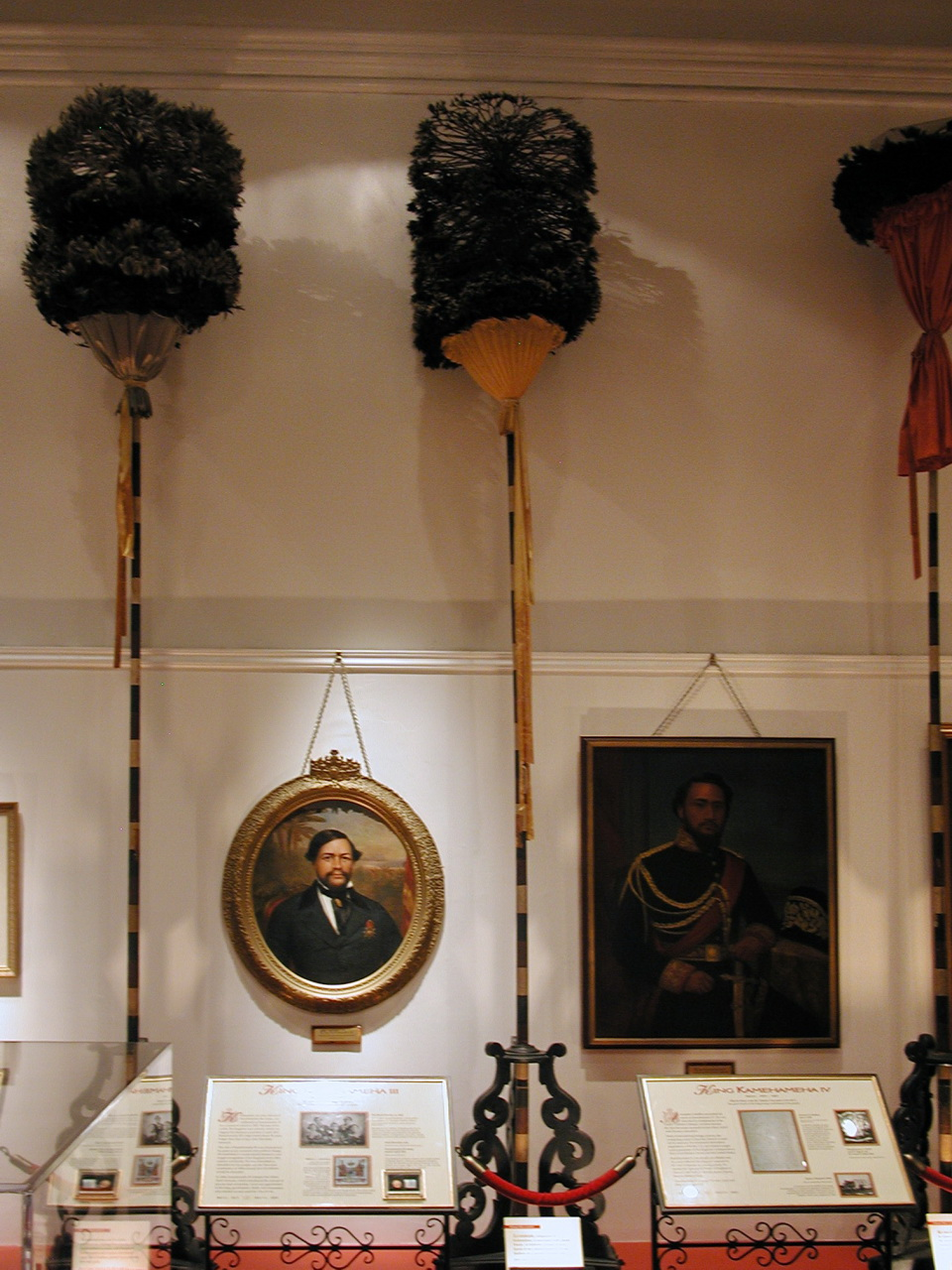 Kāhili are feathered standards used from ancient times by Hawaiian royalty. Similarly to how the nobility of Europe use banners with coats of arms, Hawaiian nobility use kahili to show status, lineage, and family ties. There are many sizes and styles of kahili, from very small kahili-pa`a-lima (hand kahili) carried like a scepter by female chiefs, to the towering formal kahili. There are also many intermediary sizes which each have their own place in traditional regalia.